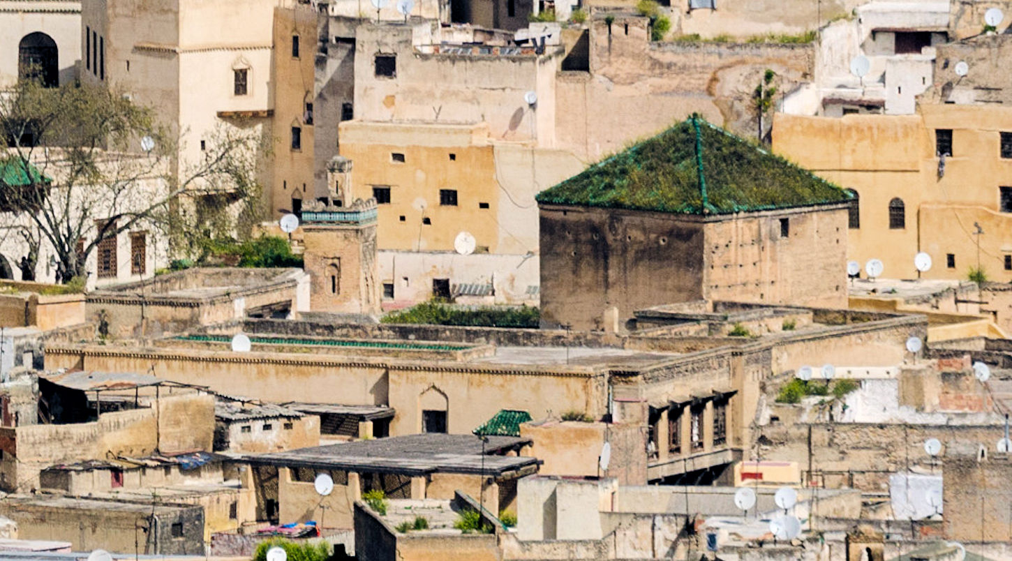 Cropped and enlarged image to highlight the Saffarin Madrasa roof and minaret.